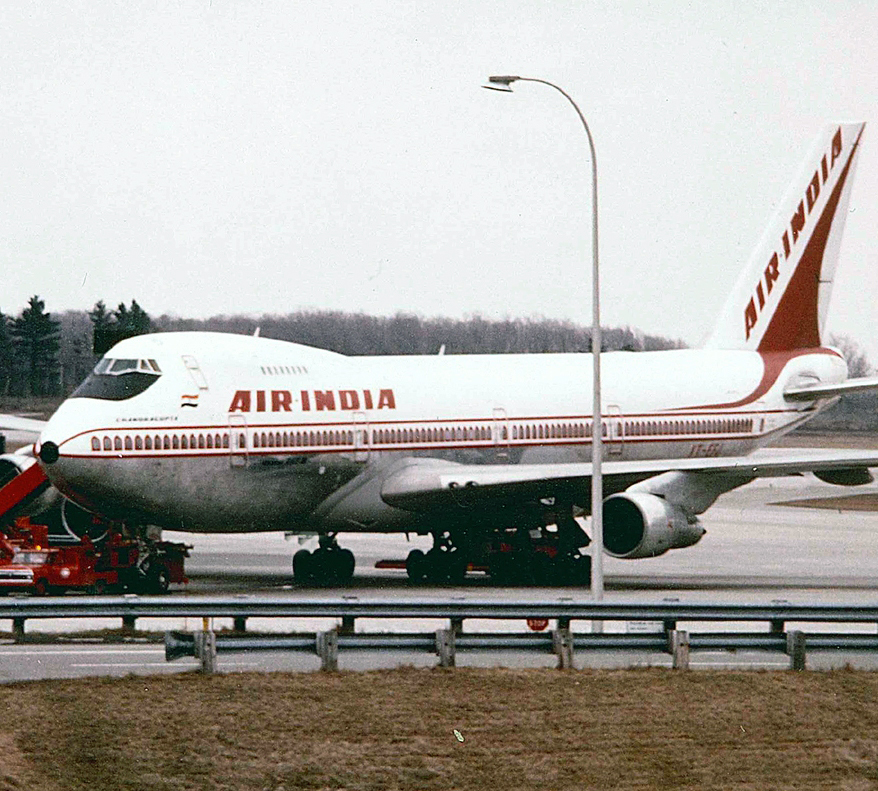 A Boeing 747-237B aircraft (VT-EFJ) of Air India at Montréal-Mirabel International Airport